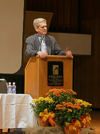 Edward S. Walker, Jr. on 14 September 2006 during his speech at Nebraska Wesleyan University's Visions and Ventures event. Author: Mikko "mixer" Vedru